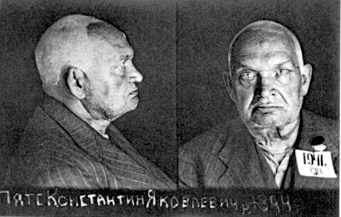 Konstantin Päts as a Soviet prisonerEesti: Konstantin Päts Nõukogude vangina